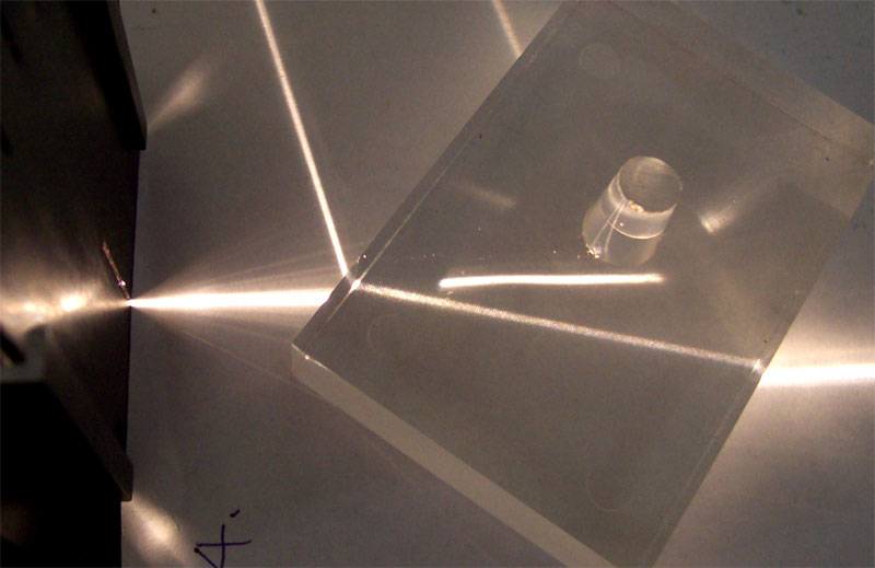 refraction in a Perspex block refraction සිංහල: පර්ස්පෙක්ස් කුට්ටියක වර්තනය